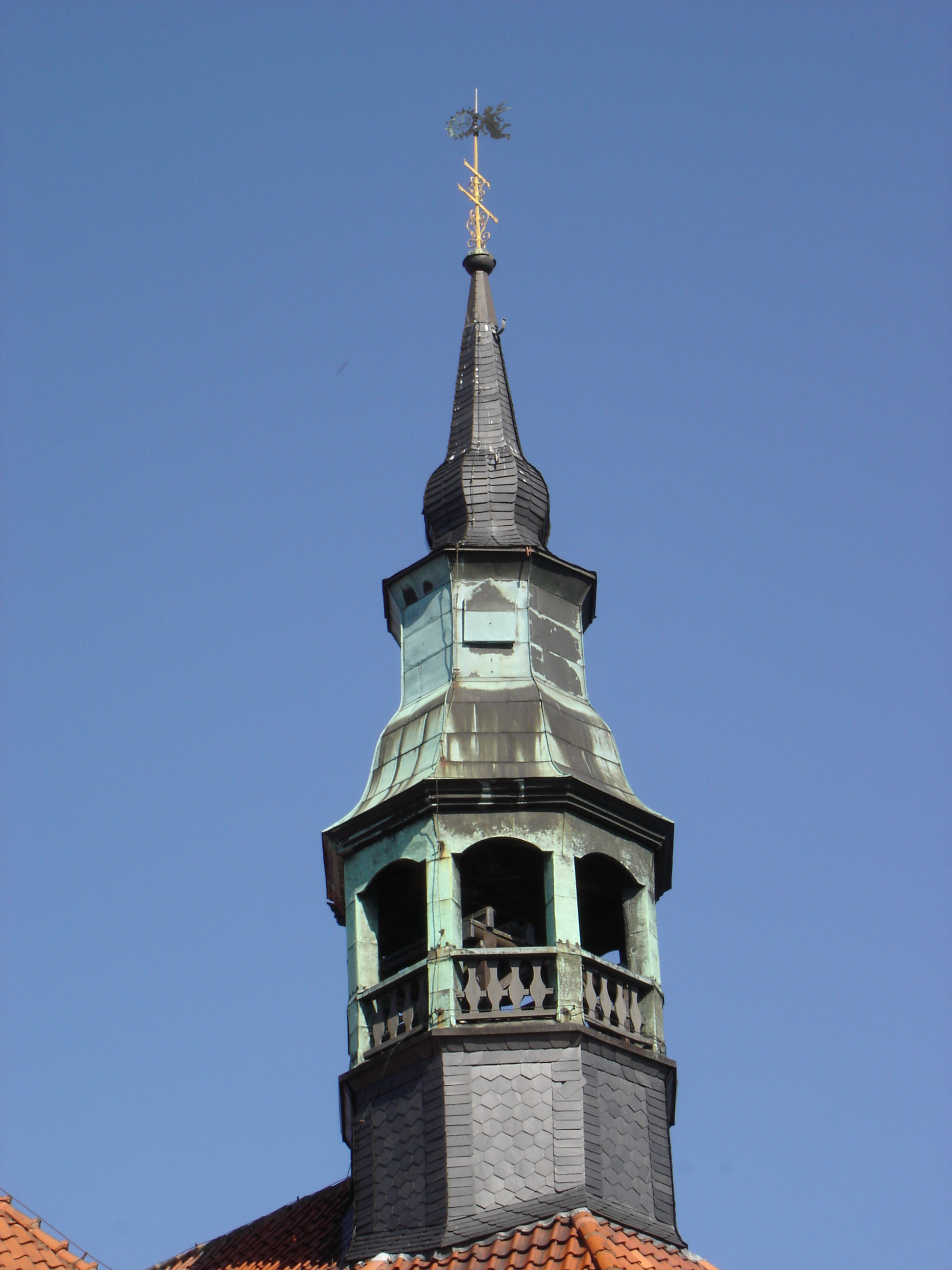 Gymnasial church in Meppen, Fleche